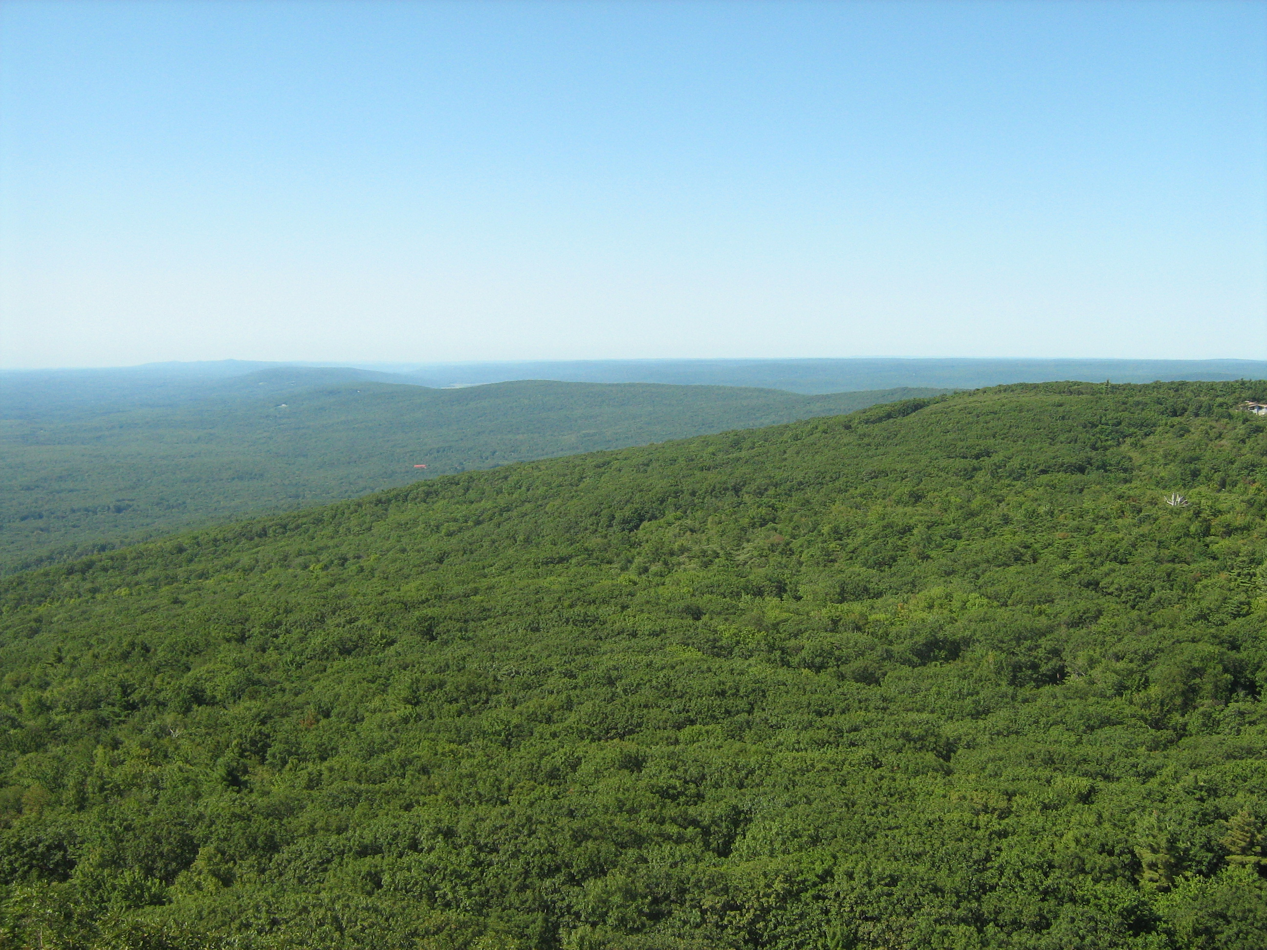 View to the SE from Sam's Point in the Sam's Point Preserve